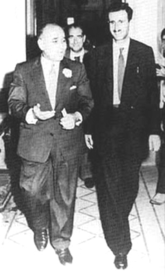 Lebanese leaders Saeb Salam (left) and Kamal Jumblatt (right) in the Damascus office of Syrian President Shukri al-Quwatli